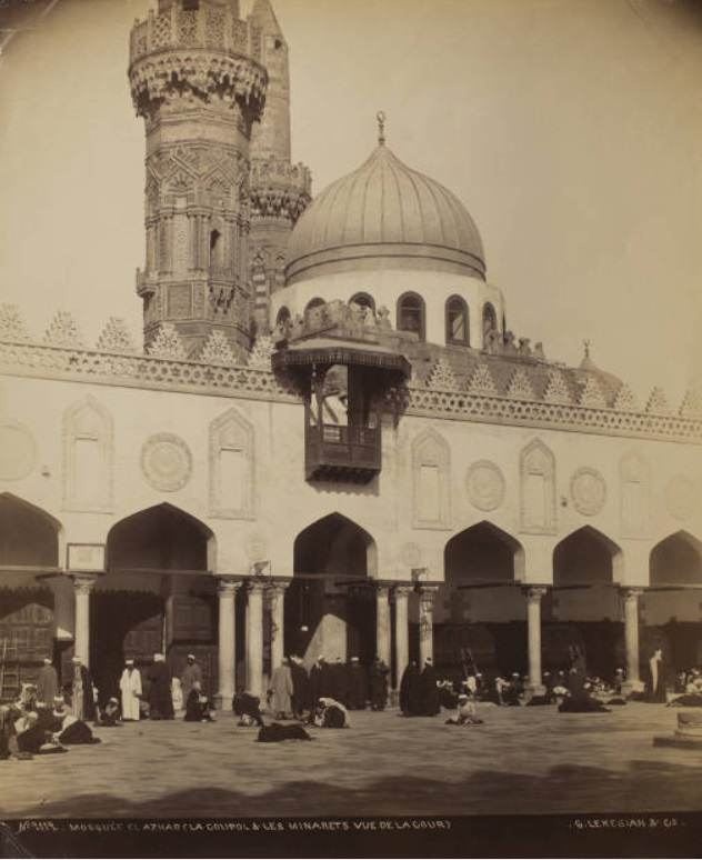 El Azhar Mosque (The Dome & The Minarets view from court). Collector's note: Minaret dates from Kait Bey (1468-96).